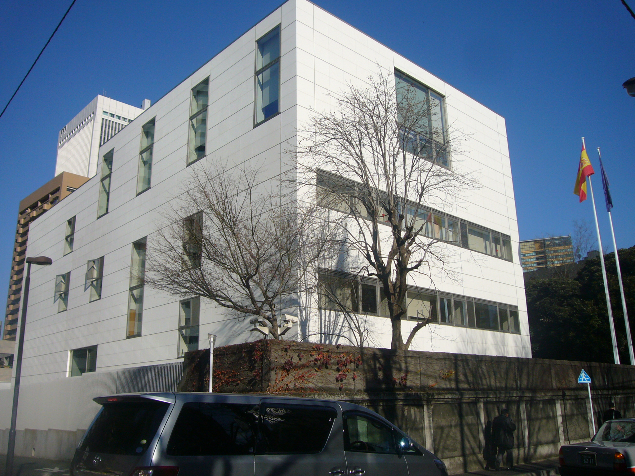 Tokio - Embassy of Spain